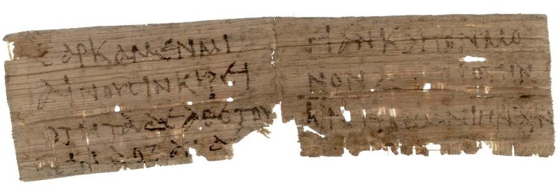 Papyrus 78, containing the Epistle of Jude, verses 4, 5, 7 and 8. Dated to the 3rd or 4th century.